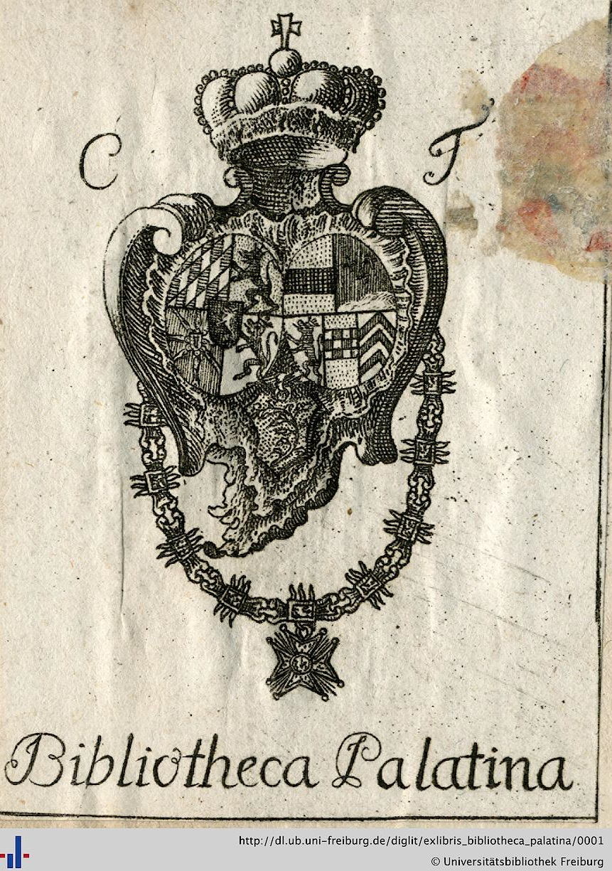 Exlibris of Bibliotheca Palatina in Mannheim (before 1803).